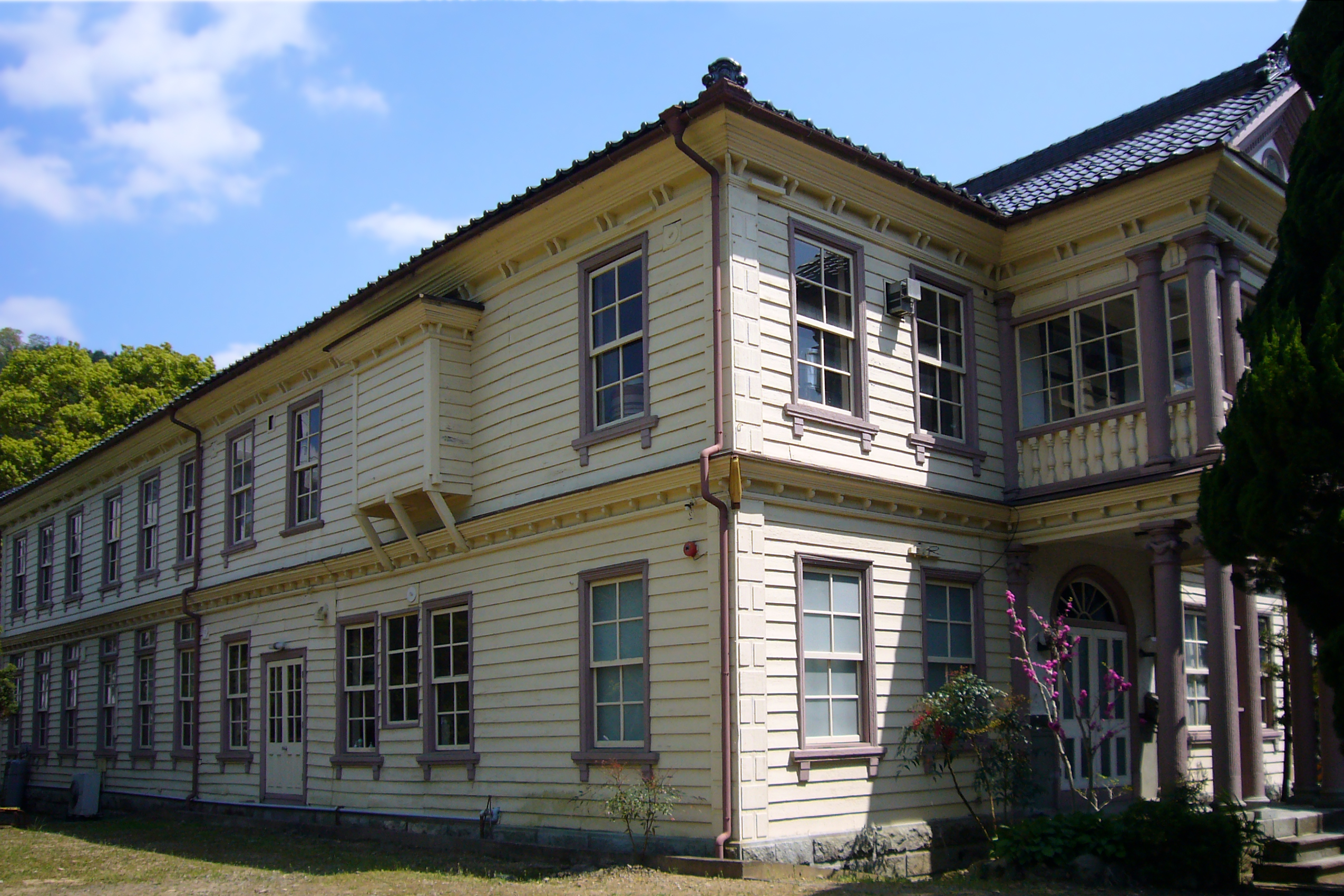 Old Hikami District's Towns-and-villages associations' Higher elementary school in Tamba, Hyogo prefecture, Japan